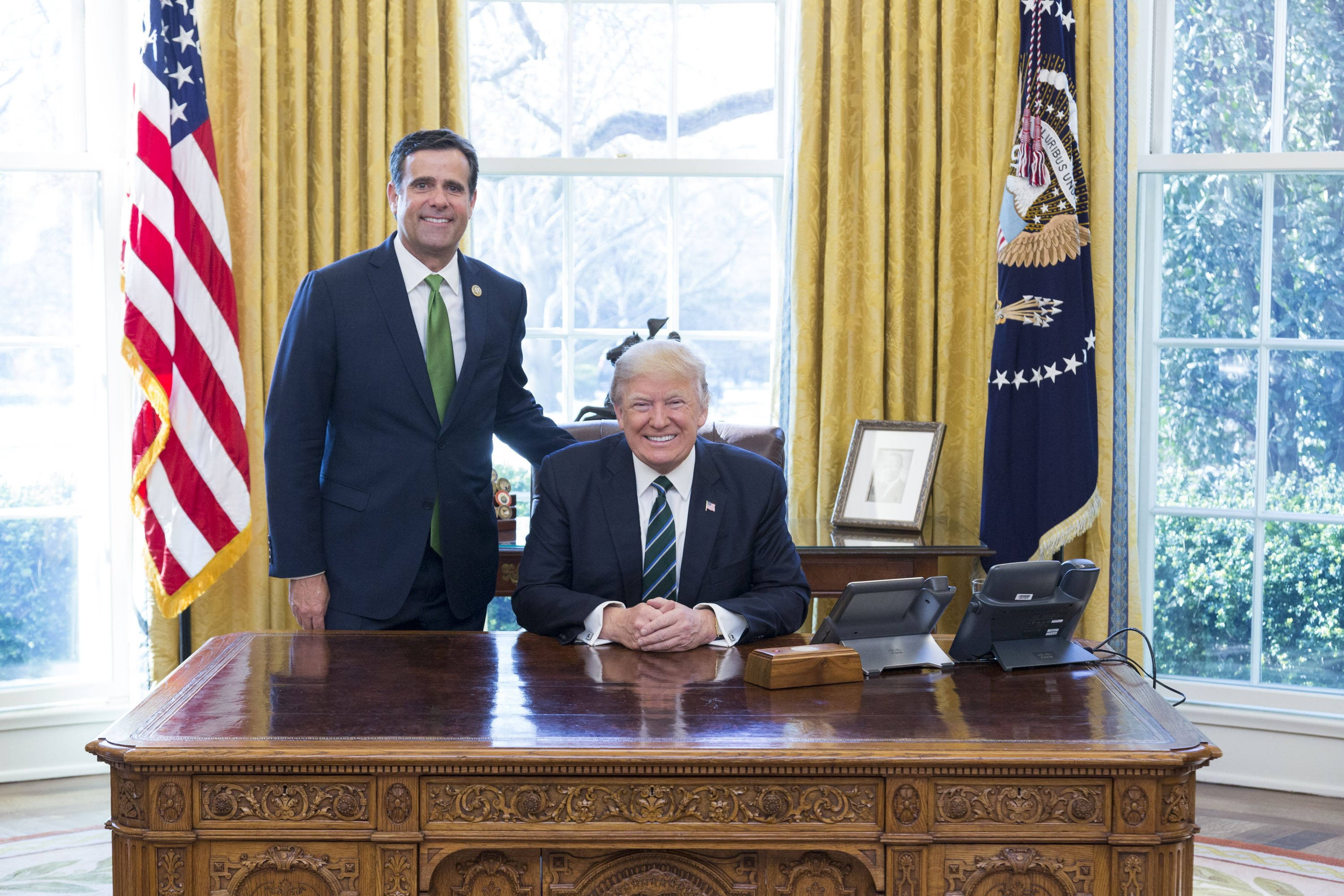 President Donald Trump meets with the Republican Study Committee regarding healthcare in the Oval Office, Friday, March 17, 2017. (Official White House Photo by Shealah Craighead)